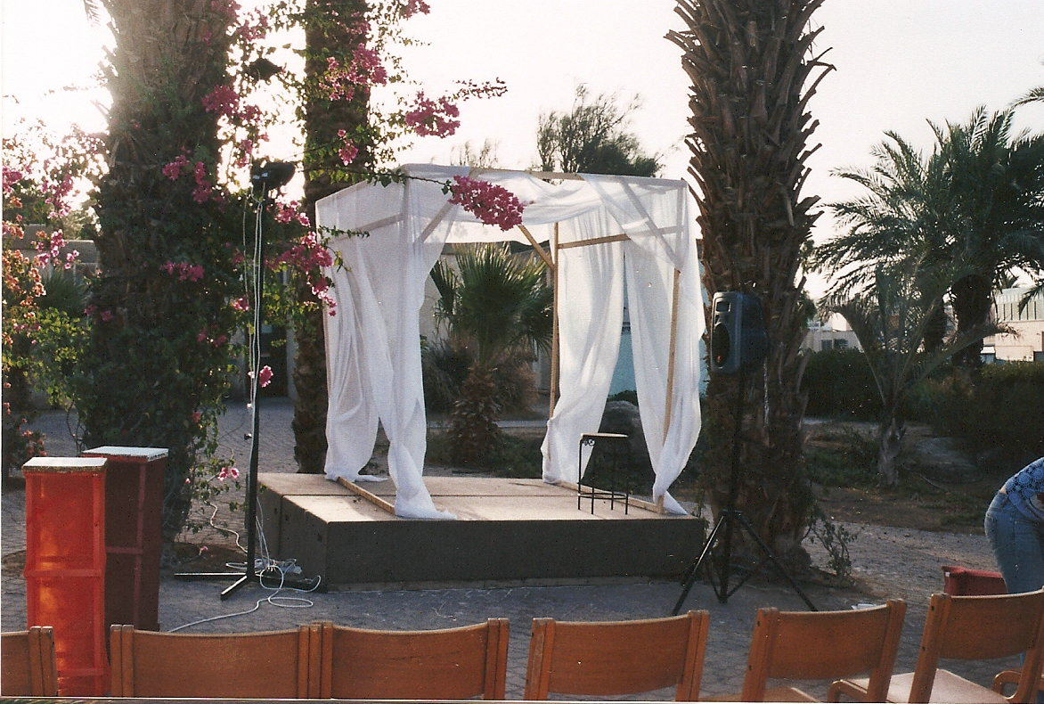 Events in Israel